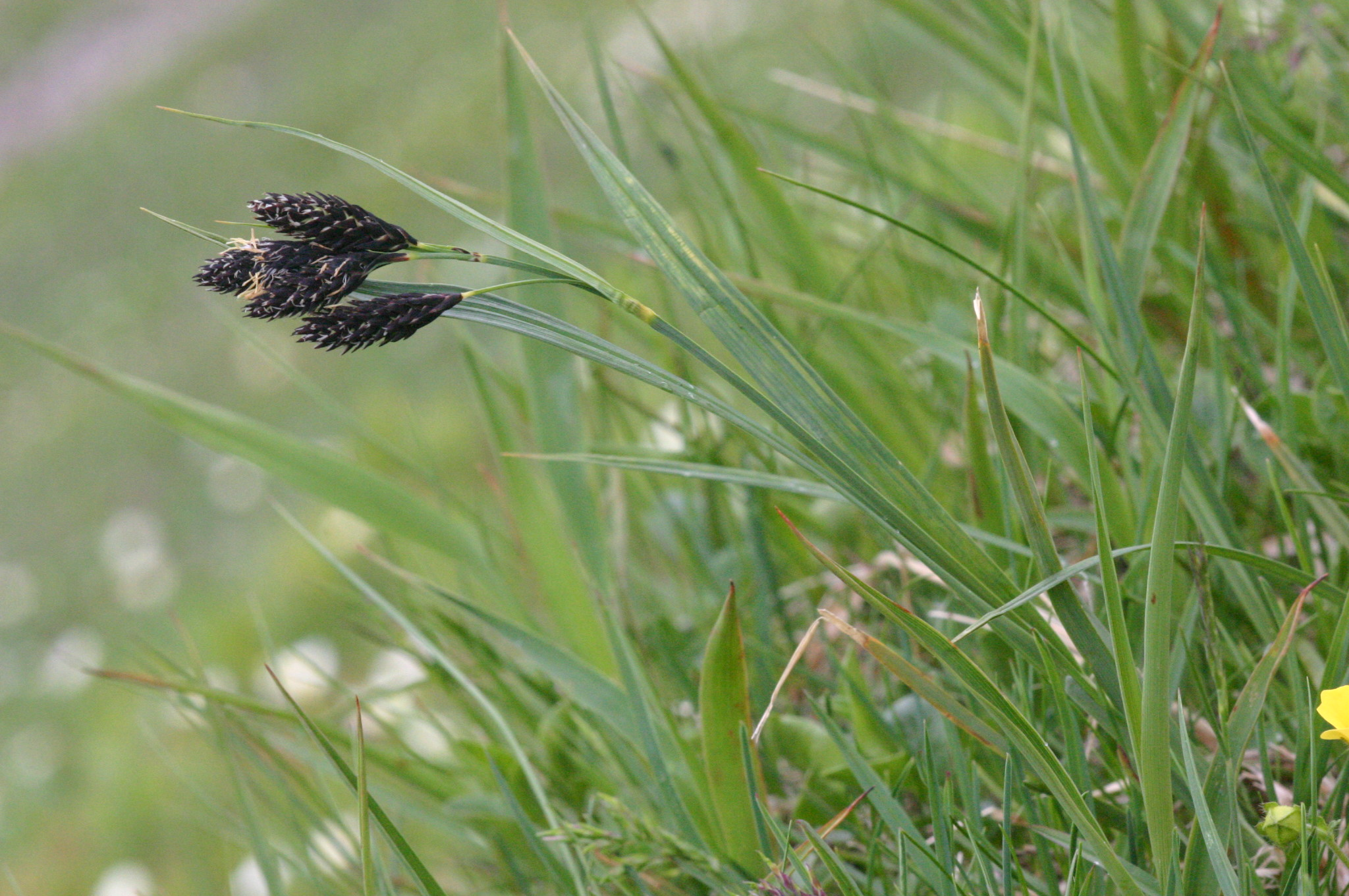 Carex atrata